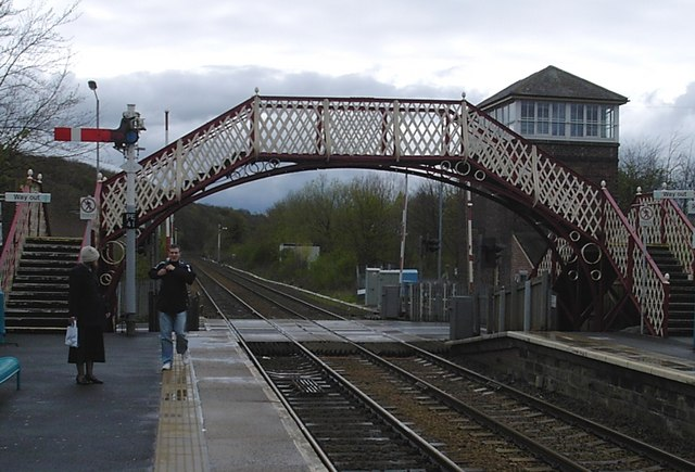 Prudhoe railway station Original description: Prudhoe - Station footbridge and signal box